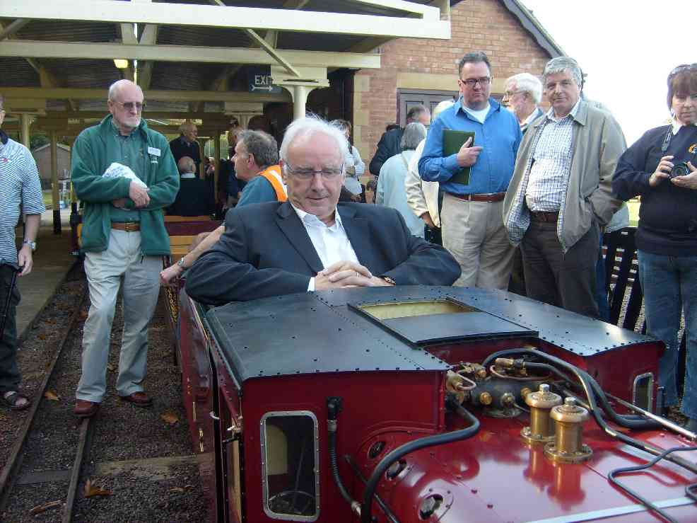 Pete Waterman sitting at the controls of the Stapleford Miniature Railways new East African loco in October 2008 during the unveiling and new station opening ceremony.